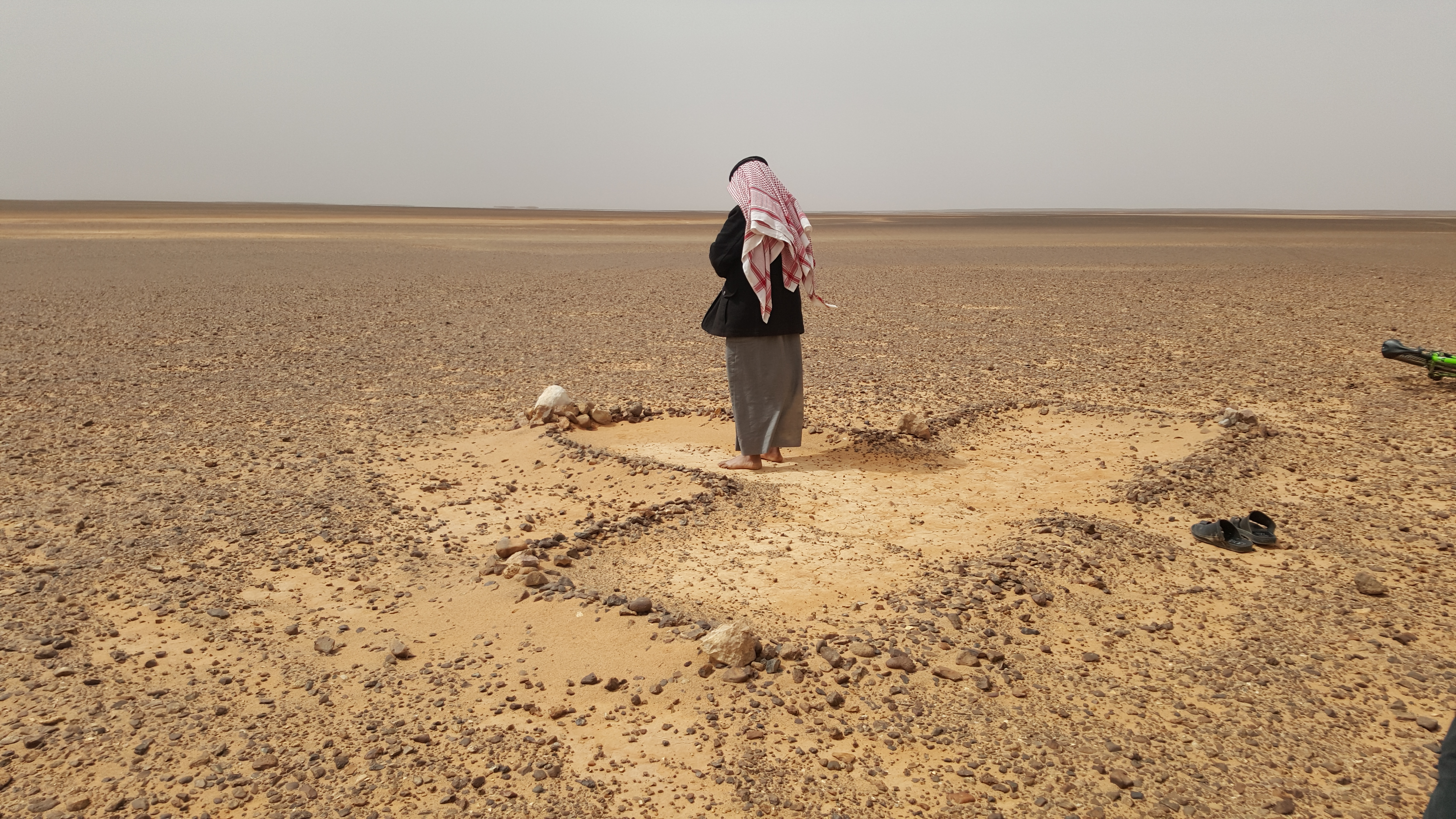 Abu Sami, a Bedouin from the eastern desert of Jordan, prays in a nomad's mosque pointing towards Mecca. Notice the pair of sandals outside the mosque.